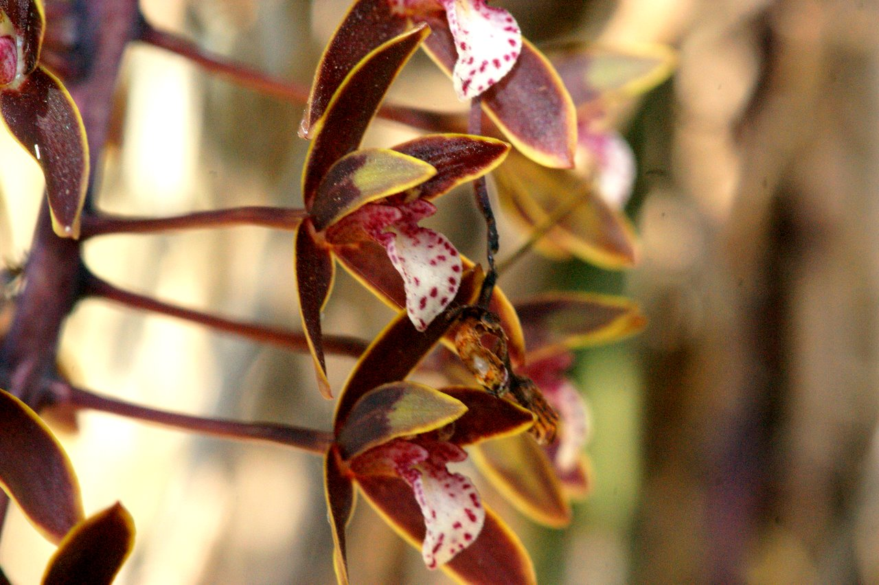 If ever in C'ville from September to November, a stroll around the course will give a good representation of the local vegetation